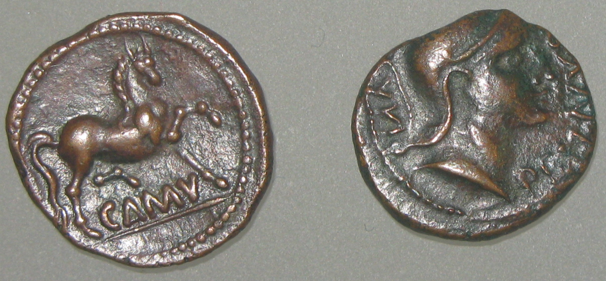 Two bronze coins of Cunobelinus. Found in the Thames. Coins property of the Museum of London, reference numbers A25712-13.